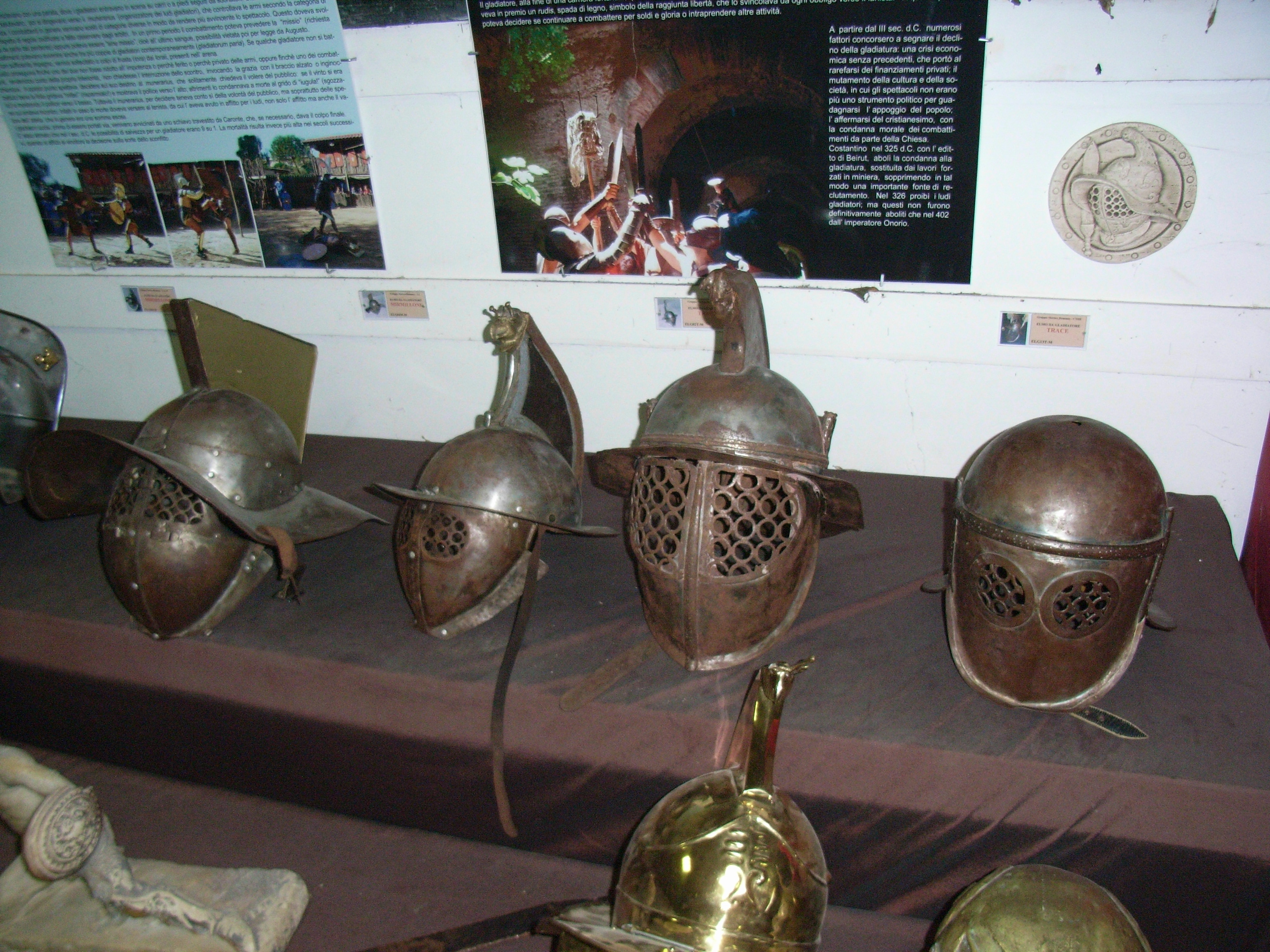 Gladiator helmets Photograph taken with permission at Museo Gruppo Storico Romano Museum in Rome